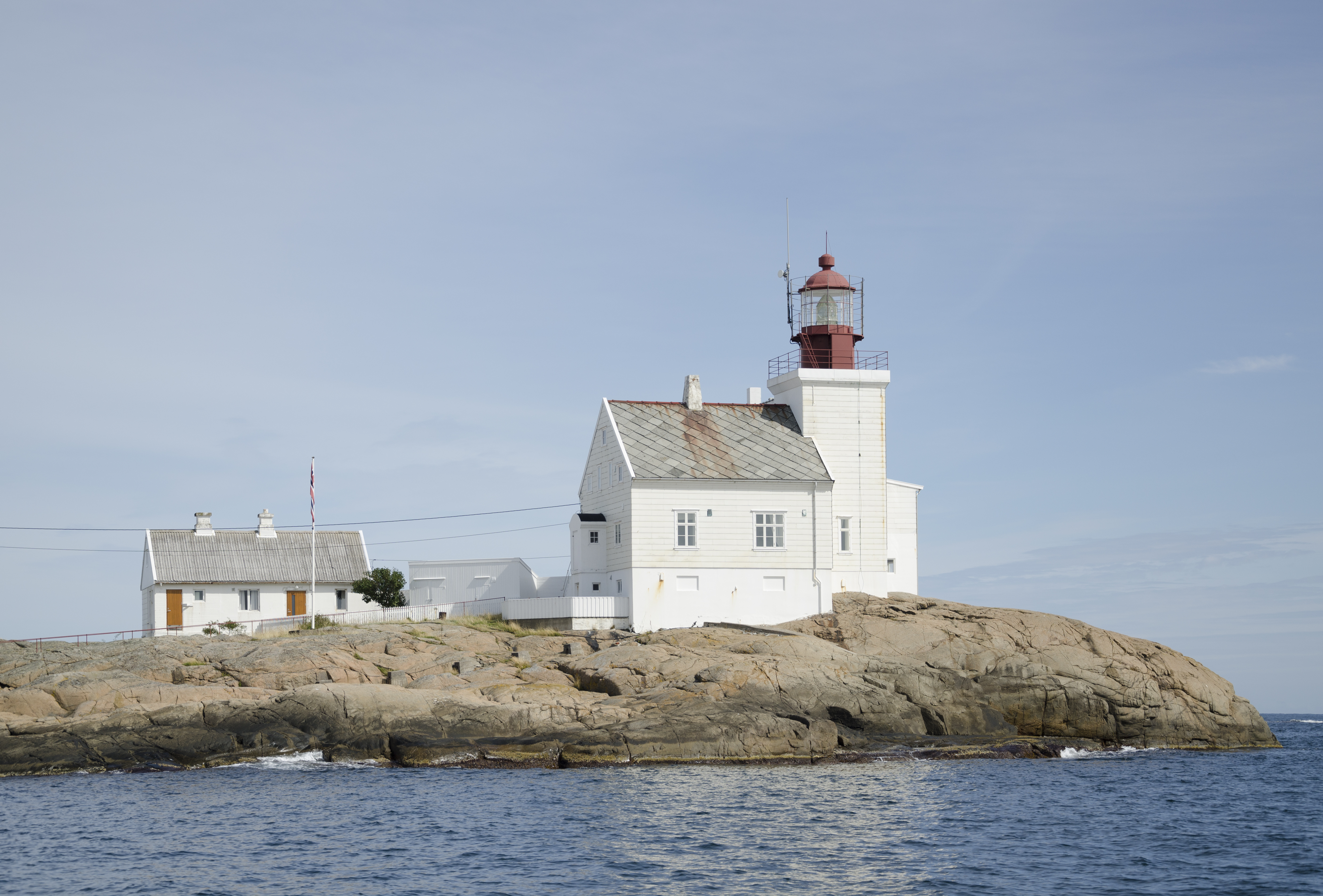 Lyngør lighthouse in august 2017.